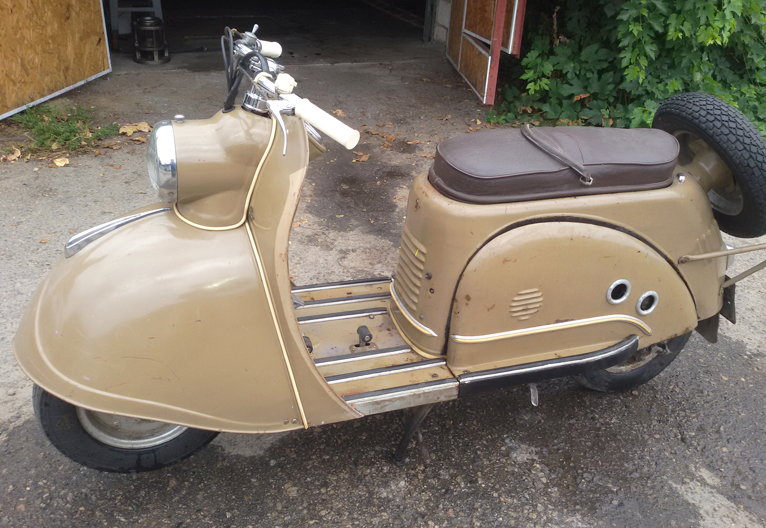 USSR scooter Tula T-200, 1958